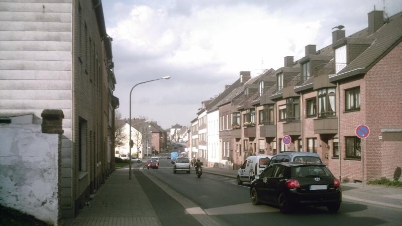 Hardter Straße in Hoser, Viersen, Germany